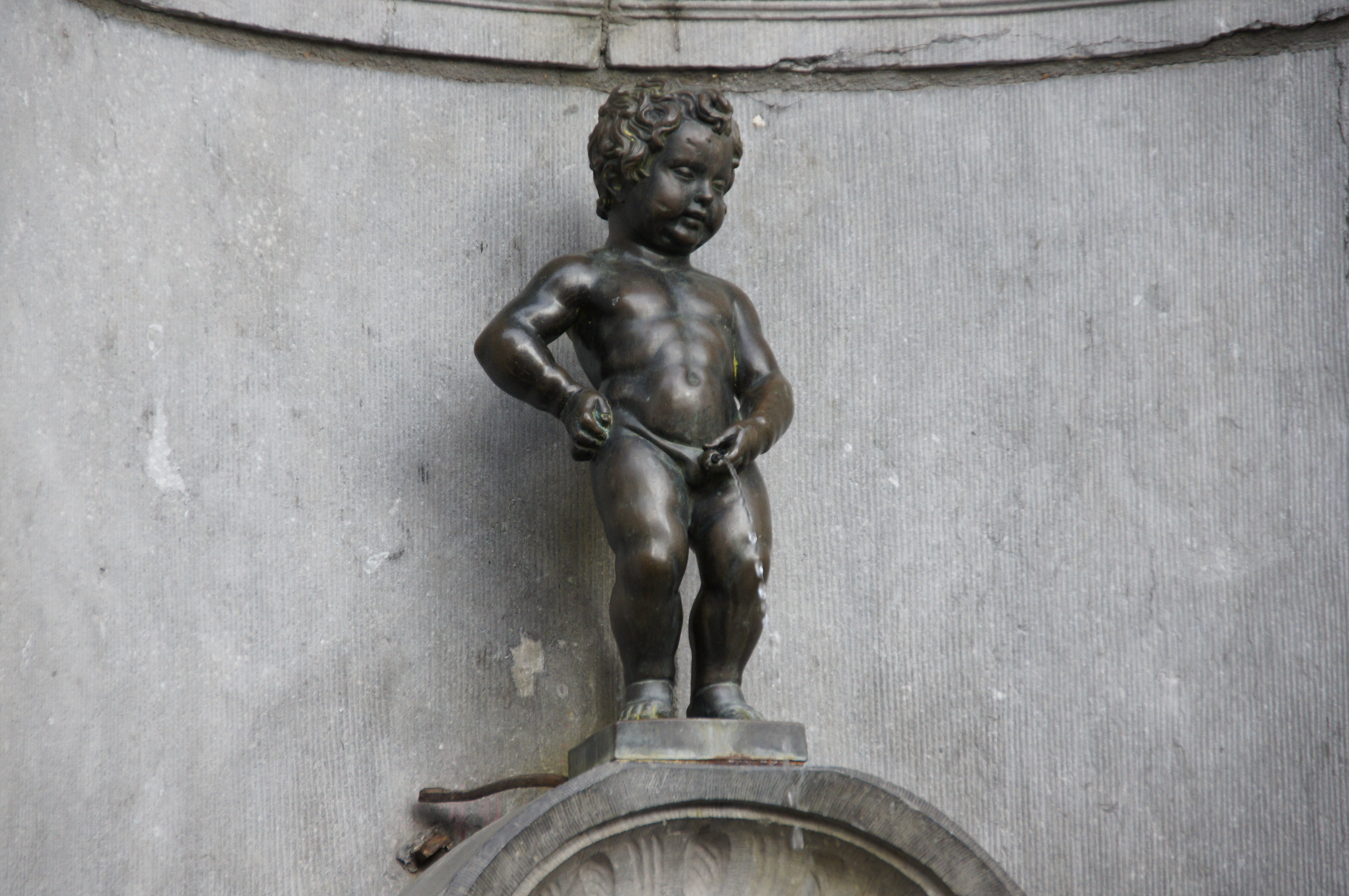 The statue Manneken Pis located in Brussels.